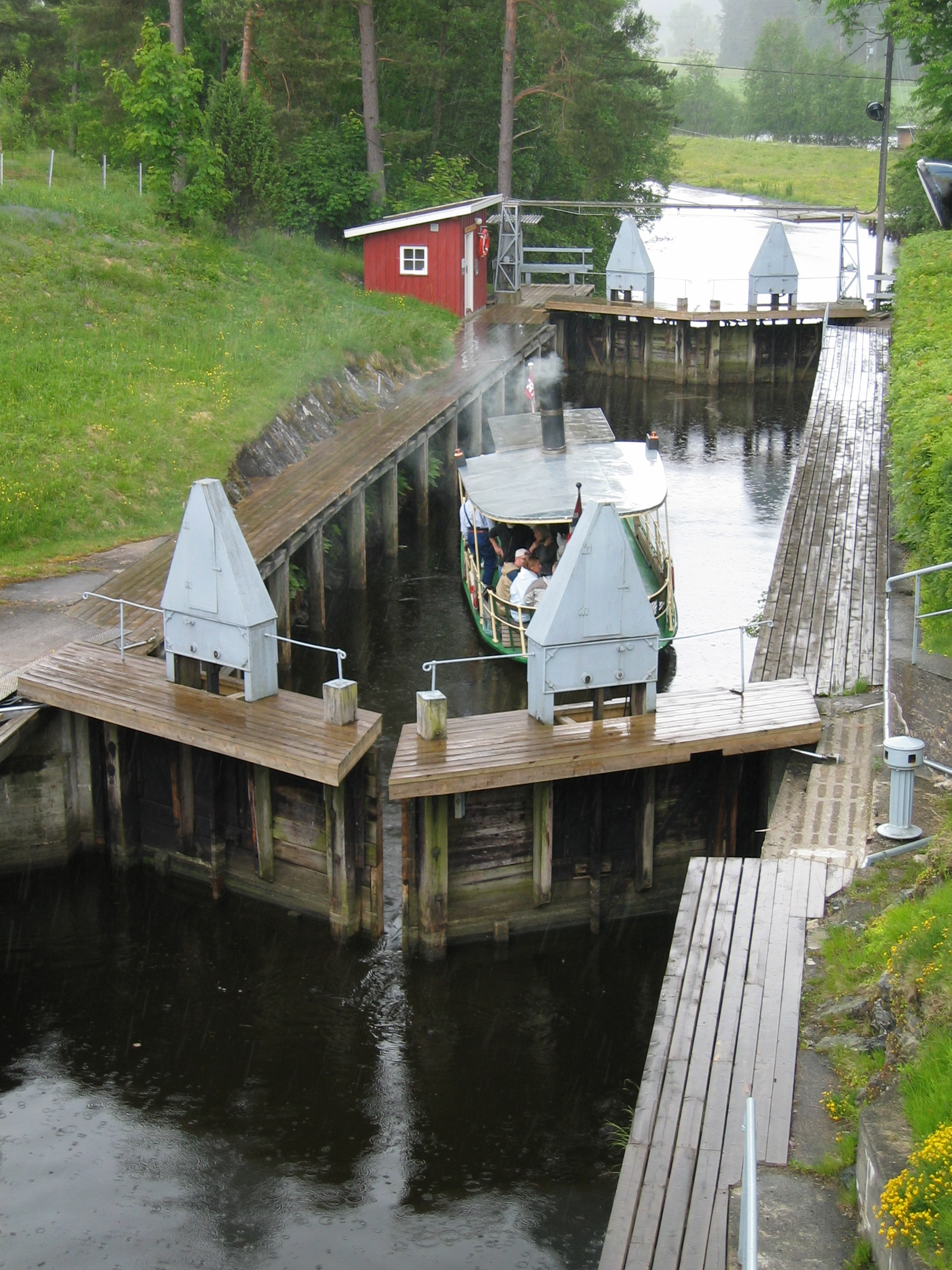 Strømsfoss locks in Haldenkanalen, Aremark, Østfold, Norway.